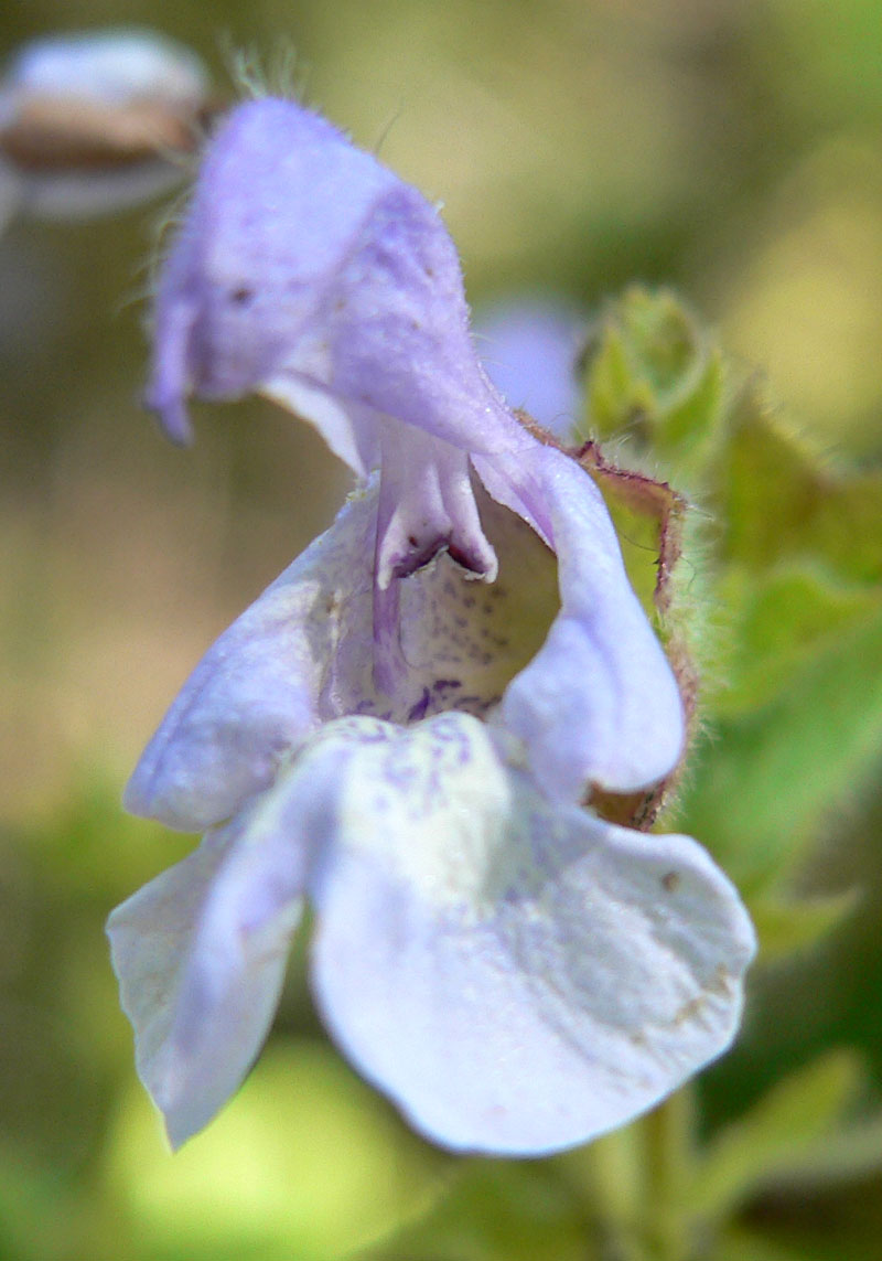 Salvia africana at the University of California Botanical Garden, Berkeley, California